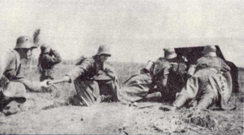 Bofors 37 mm AT gun of the Polish 10th_Motorized_Cavalry_Brigade